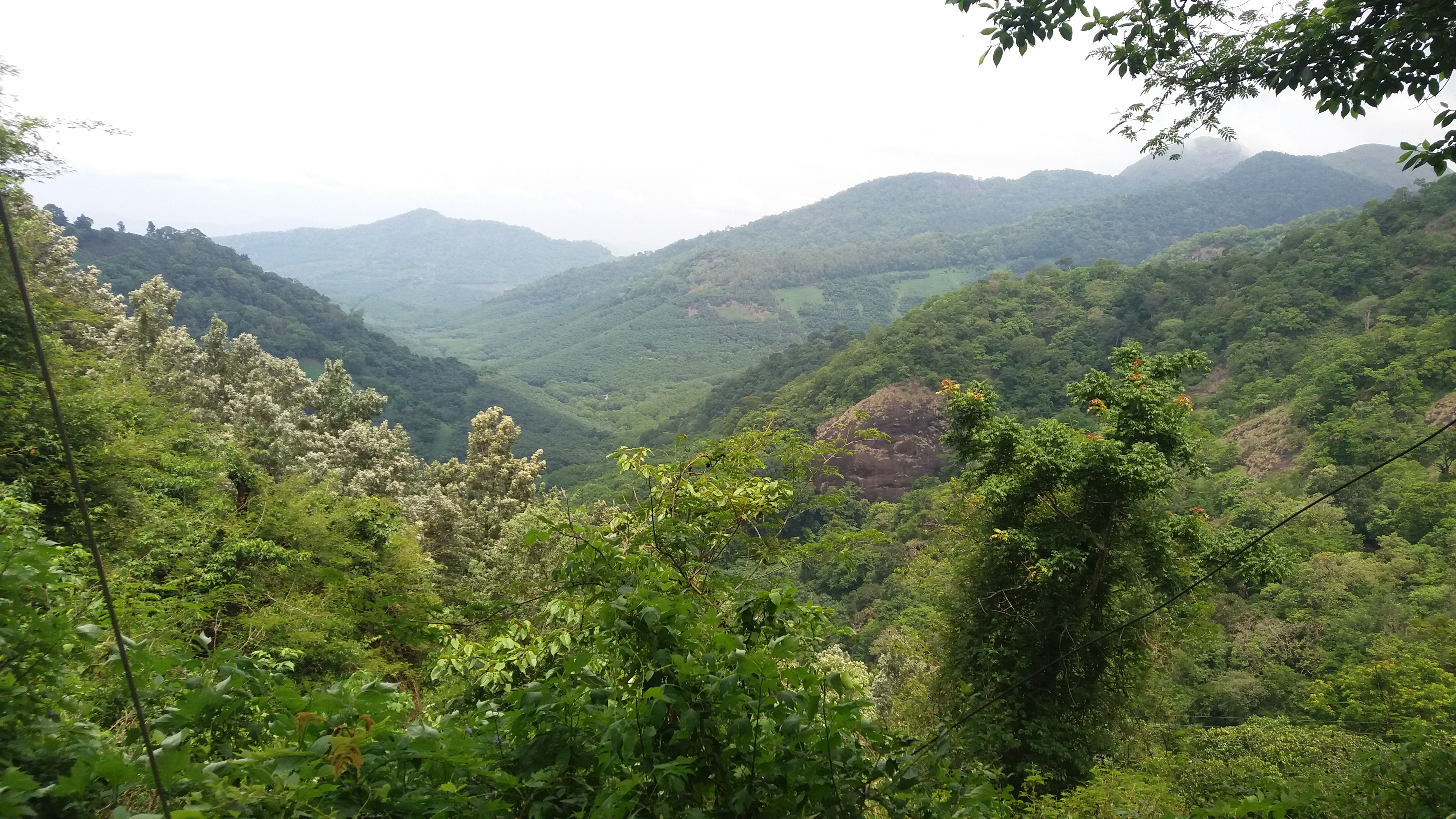 The landscape of Ambanad hills in Kollam district Kerala.